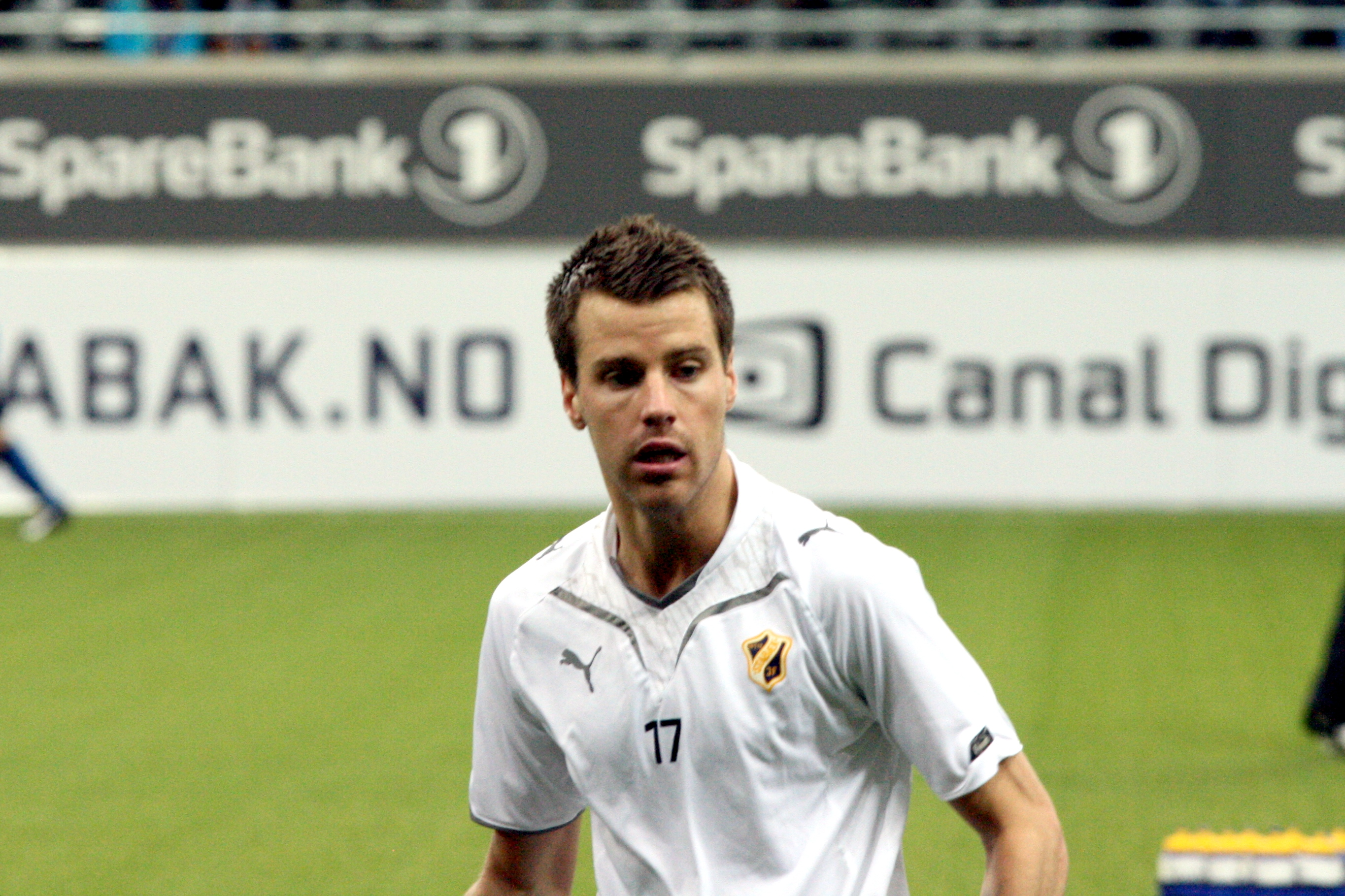 Swedish footballer Pontus Farnerud.